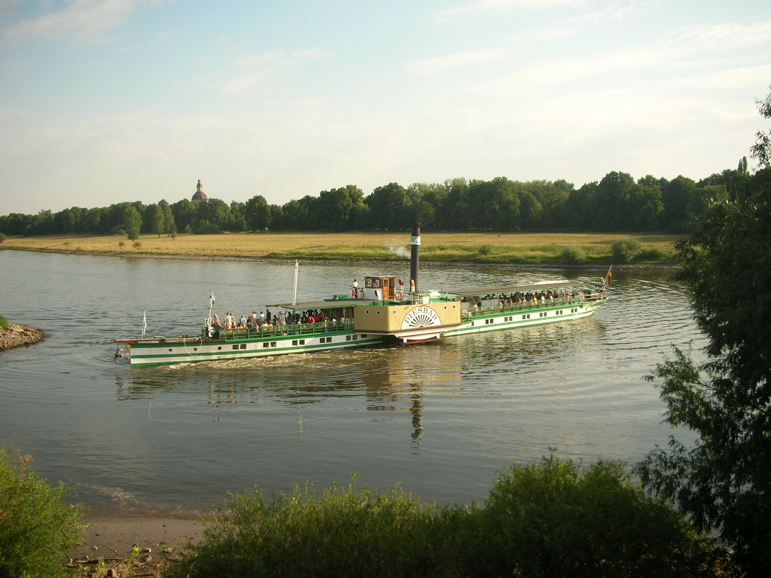 Steam boat "Diesbar" at the river Elbe in Dresden, Pieschener Hafen, changing direction